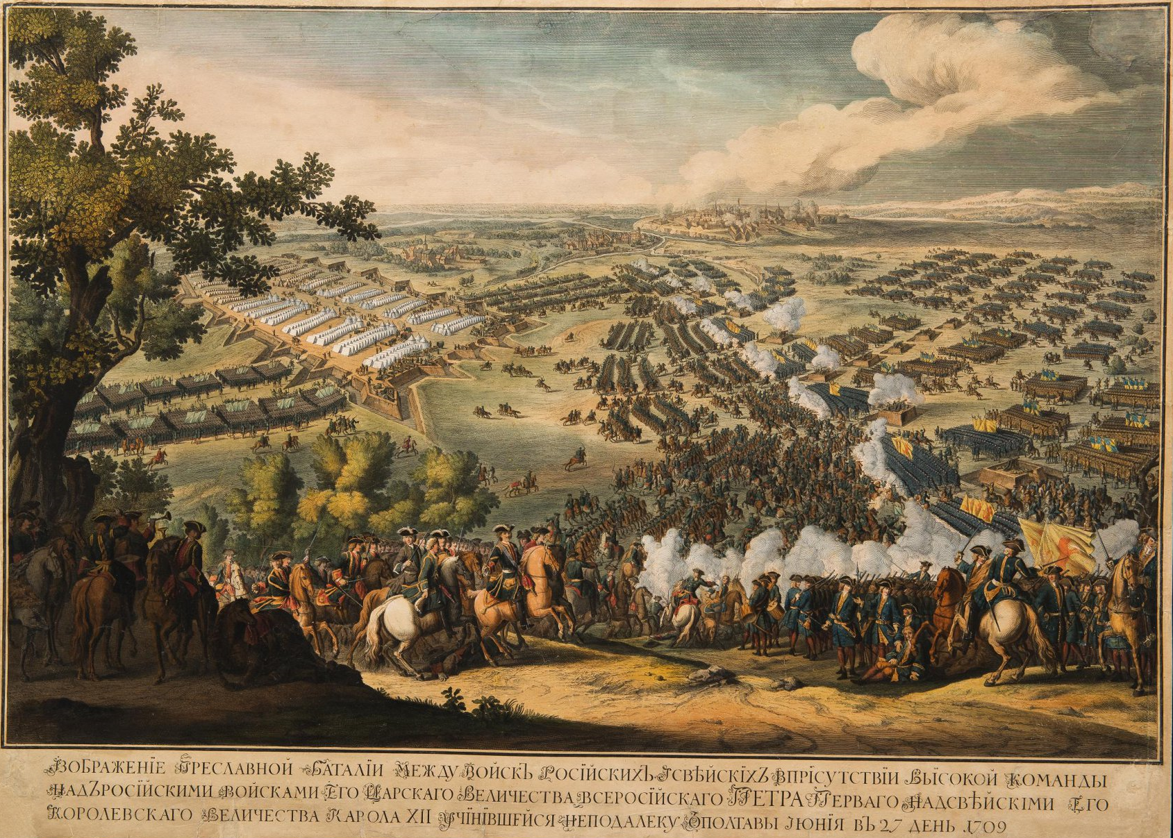 The Battle of Poltava. Engraving, 1725. Nicolas de Larmessin (1684-1755).